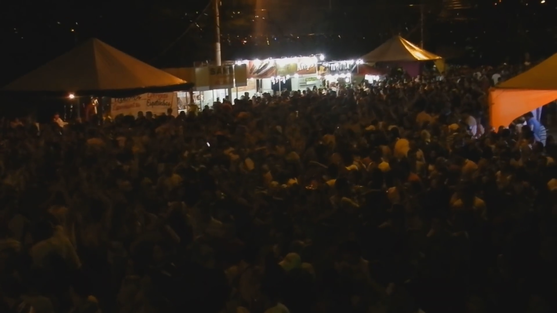 Carnapraia's Party, held in Salto Grande.